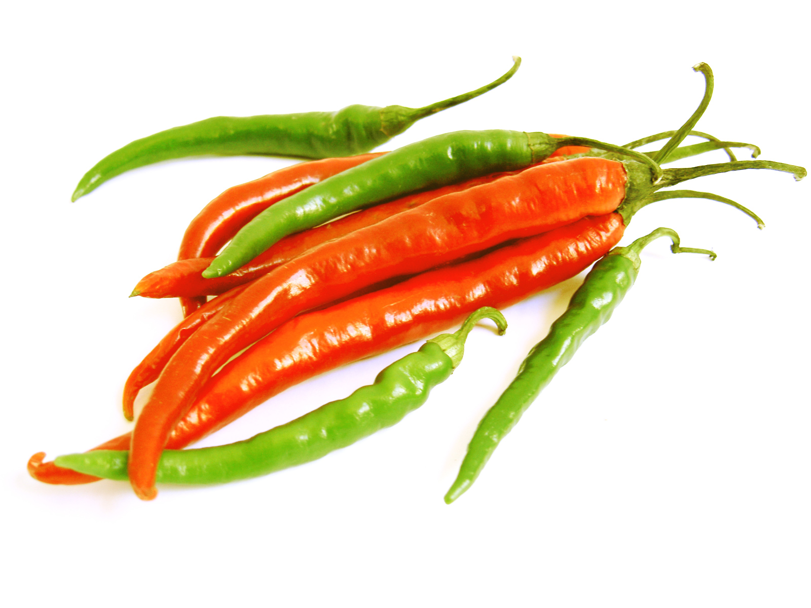 Chilis